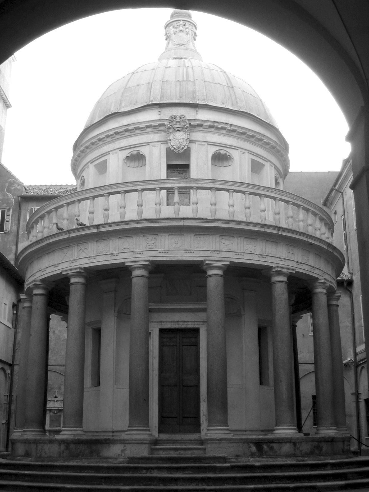 Tempietto del Bramante (Rome). Bramante's perfect Renaissance gem, in a courtyard beside S. Pietro in Montorio.